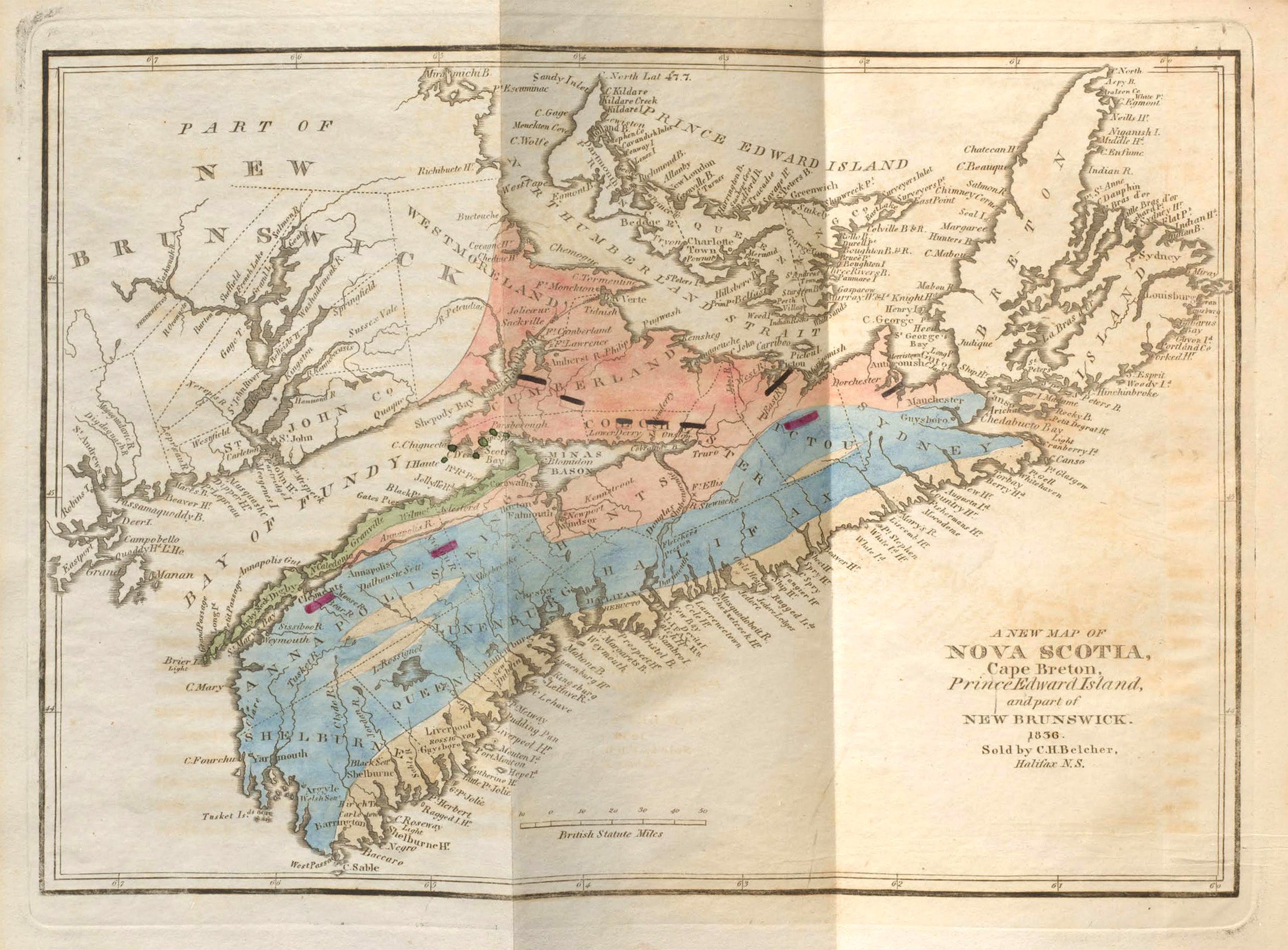 Historical map showing the geologic “districts” of Nova Scotia as recognized by Abraham Gesner in 1836. The explanation in the source work (see below) reads as follows:The South side of the Province, painted brown, isthe Primary District, and is composed principally ofGranite, Gneiss and Mica Slate.The blue denotes the Slate District, which is com-posed of Slate, Greywacke, and Greywacke Slate.The Red Sandstone District is painted light red.The crimson belts shew important beds of Iron Ore.The Trap Rocks are painted green, and the Coalblack.With respect to modern geological concepts the “Primary” and “Slate Districts” correspond to the outcrop of predominantly Cambrian to Devonian metamorphic and plutonic rocks of the basement of the Meguma Terrane. The “Red Sandstone District” corresponds to outcrop of predominantly Early Carboniferous to Early Jurassic, post-Acadian, weakly to non-metamorphosed sedimentary rocks. The “Trap Rocks” are Early Jurassic basalts of the Central Atlantic Magmatic Province.